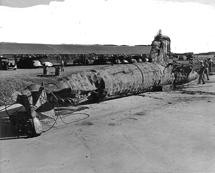 A Japanese midget submarine after having been raised by the U.S. Navy at the Pearl Harbor Navy Yard in December 1941. This submarine had been sunk by USS Monaghan (DD-354) in Pearl Harbor during the 7 December 1941 Japanese attack and was subsequently recovered and buried in a landfill. The submarine's hull shows the effects of depth charges and ramming. A hole visible in the after part of the conning tower may be from a 5" shell. The upper background had been overpainted for censorship purposes.